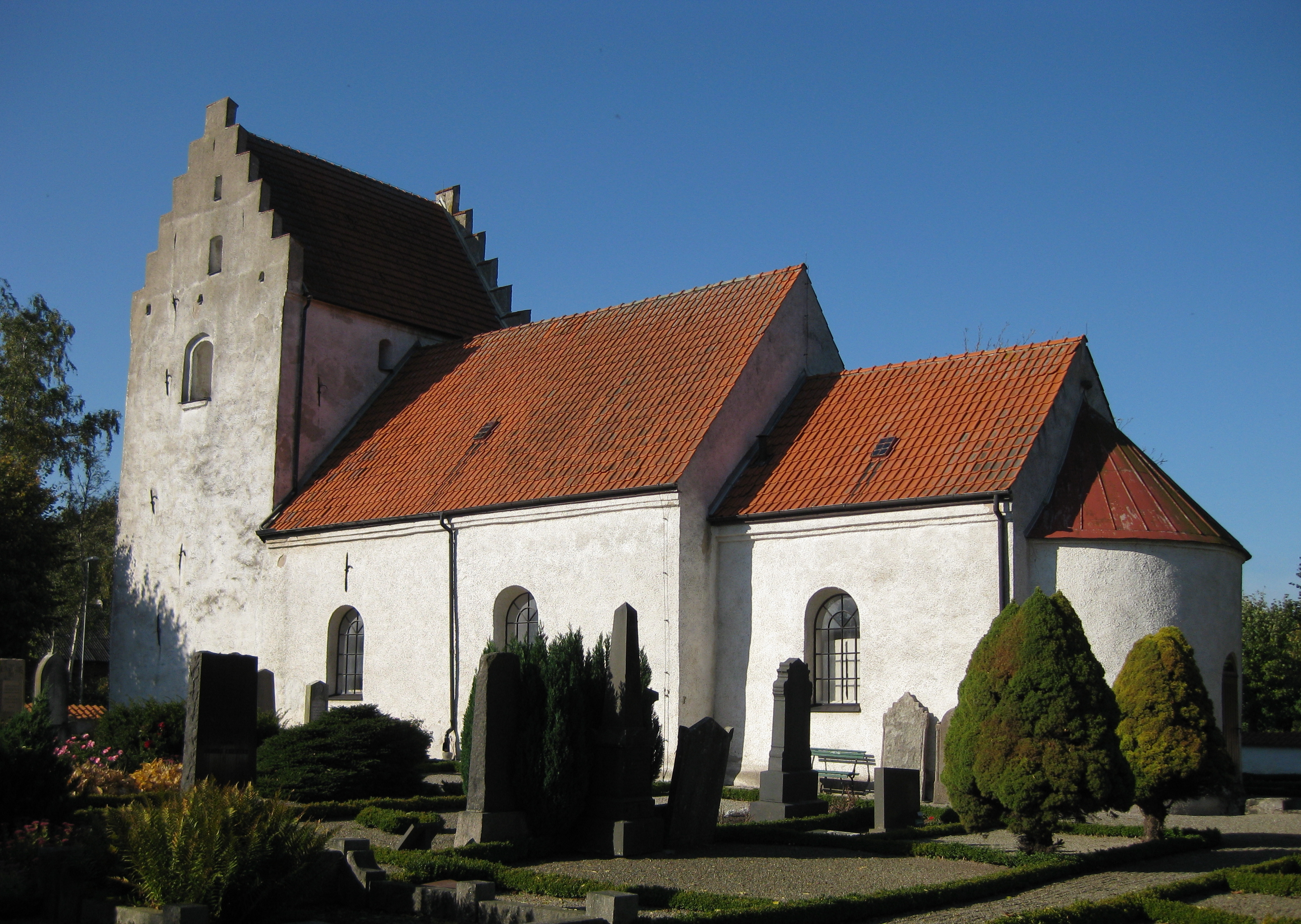 Mölleberga church, Scania, Sweden